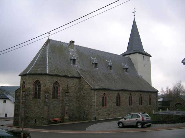 Church of Meyerode